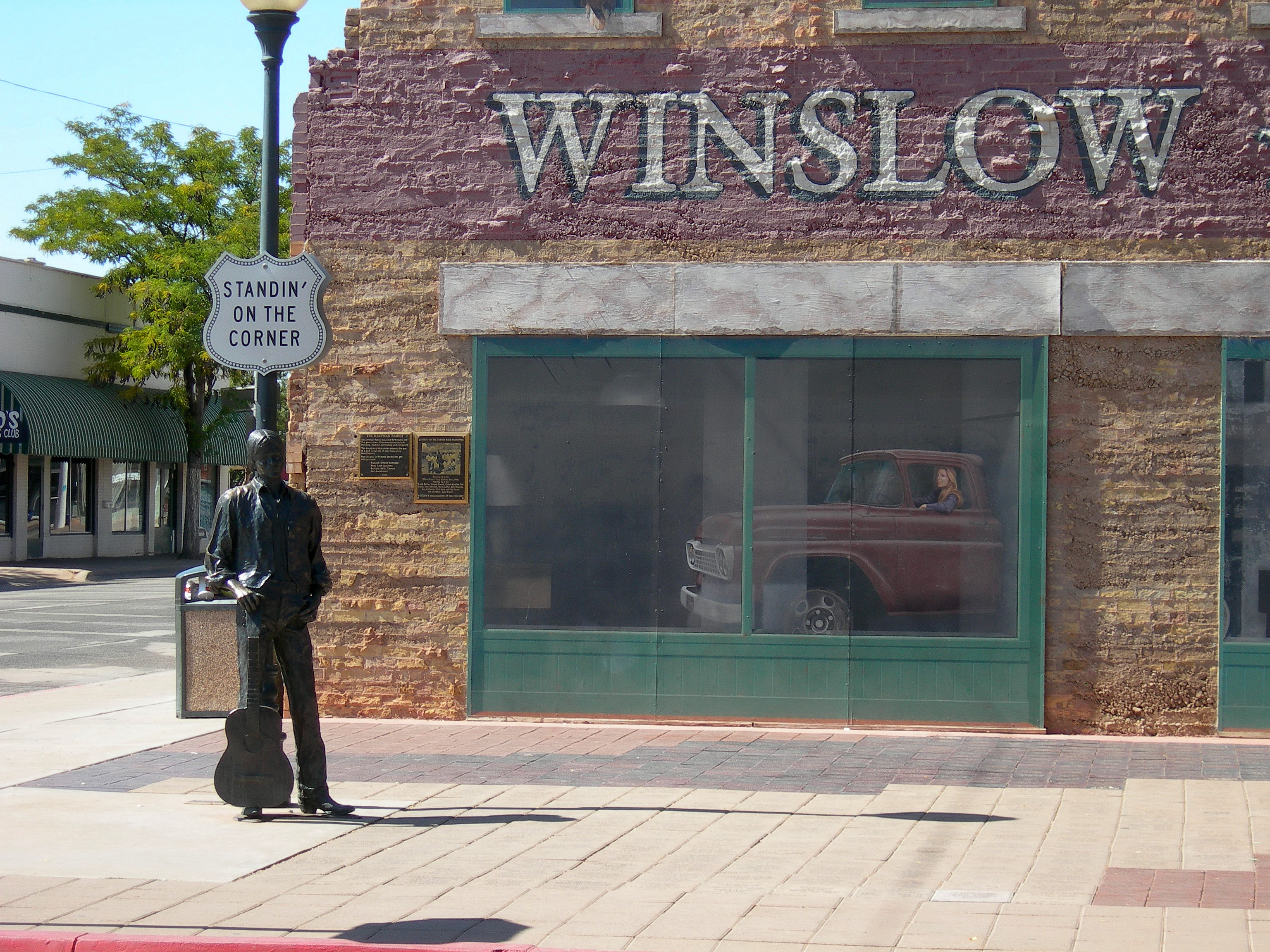 Standing on the Corner in Winslow, Arizona (Take it Easy)